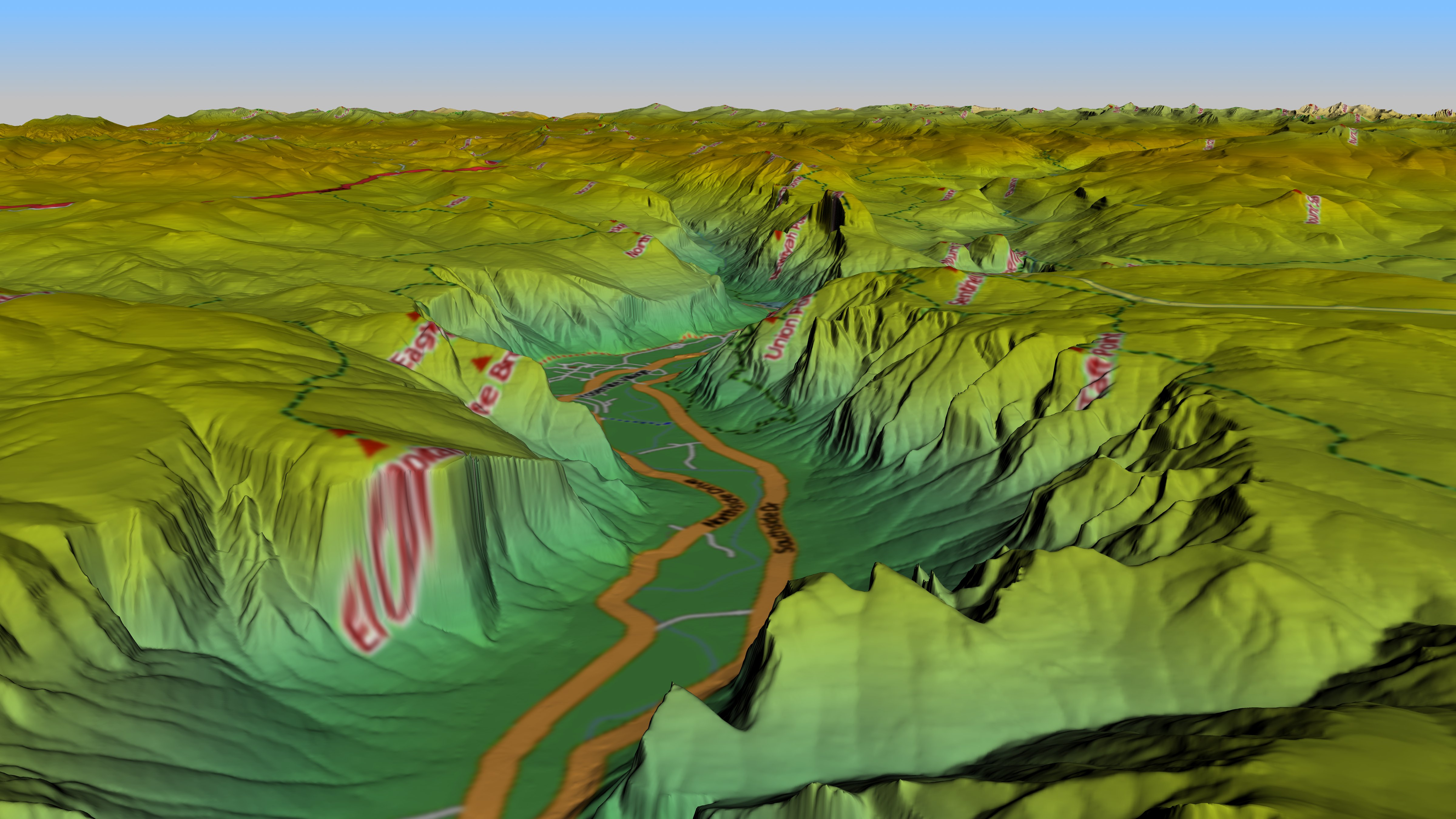 Yosemite Valley, computer image generated using TruFlite